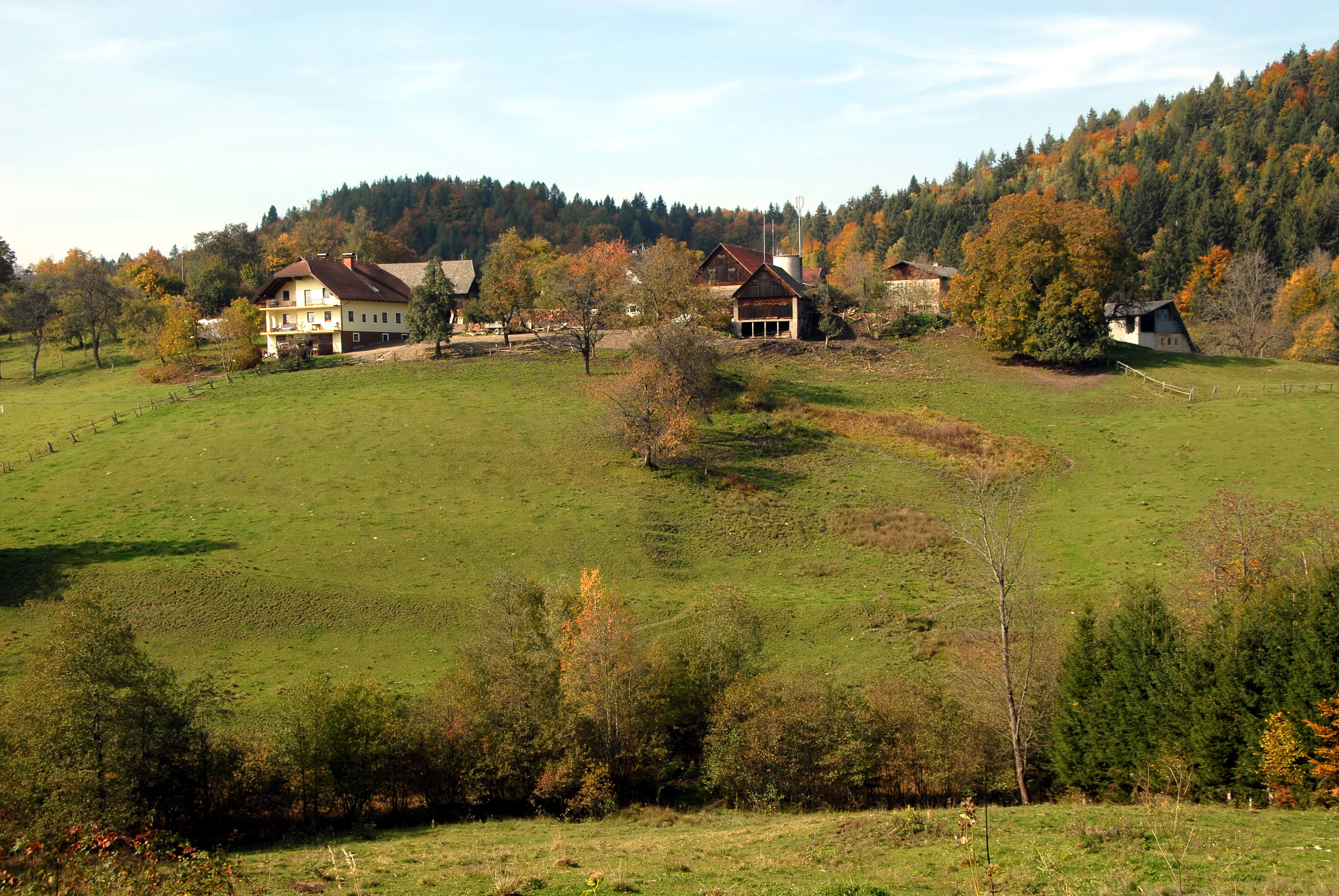 Village and locality Stemeritsch in the community Maria Rain, district Klagenfurt Land, Carinthia, Austria